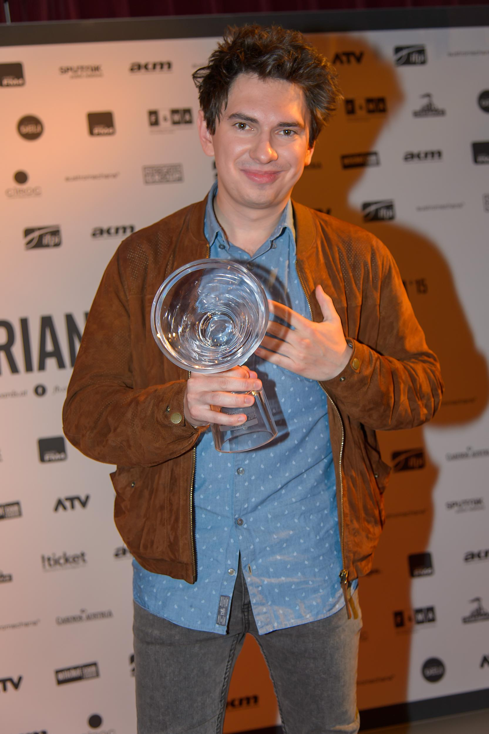 Amadeus Music Awards 2015,Volkstheater, Wien, 29.3.2015,Julian LE PLAY